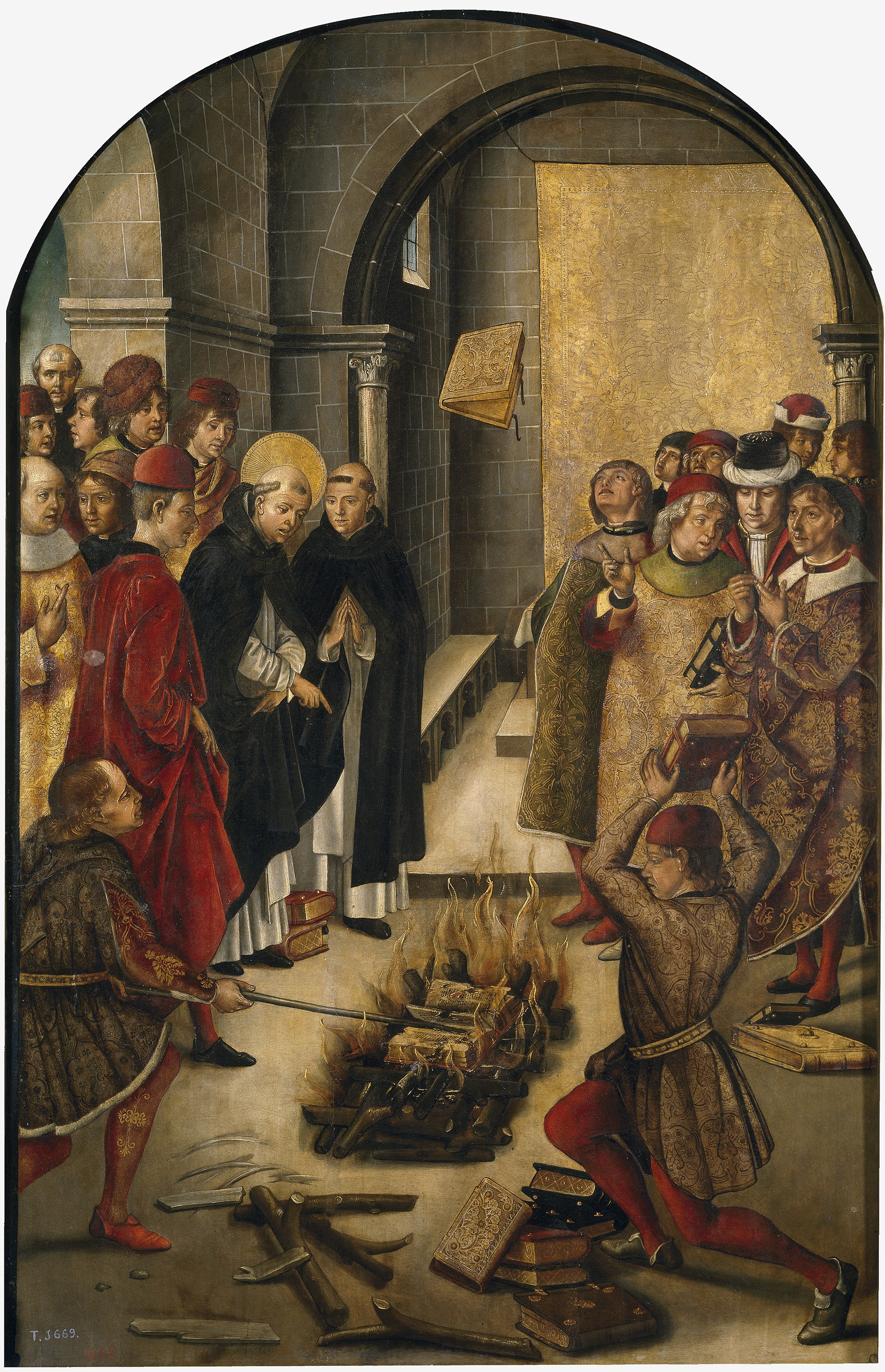 This portrays the story of a dispute between Saint Dominic and the Cathars in which the books of both were thrown on a fire and St.Dominic's books were miraculously preserved from the flames. This was believed to symbolize the wrongness of the Cathars' teachings.